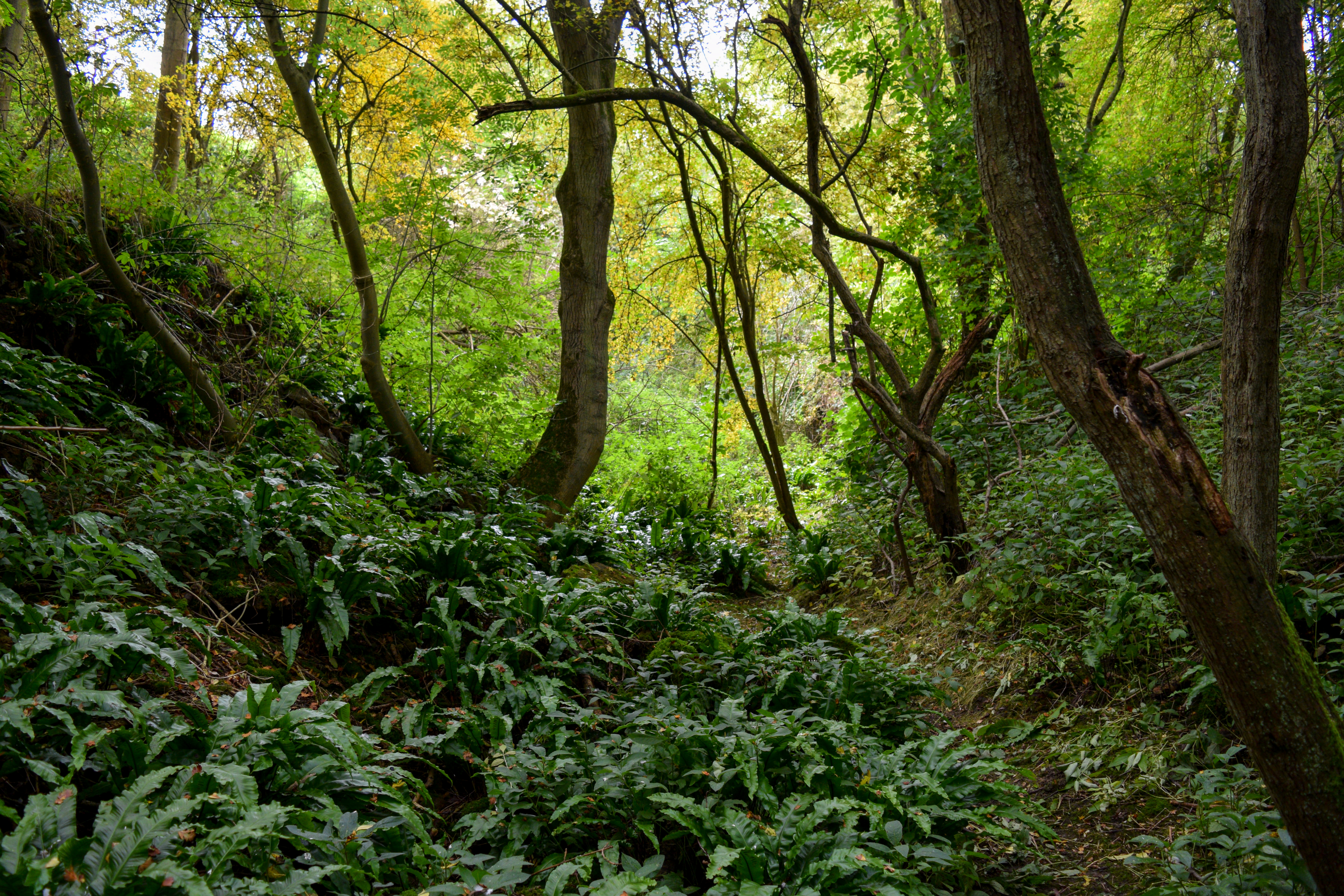 The damp floor of Rothwell Gullet is carpeted by hart's tongue fern